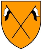 Internal coat of arms of the Bundeswehr (Armed Forces of the Federal Republic of Germany). → Remarks on naming and categorization scheme